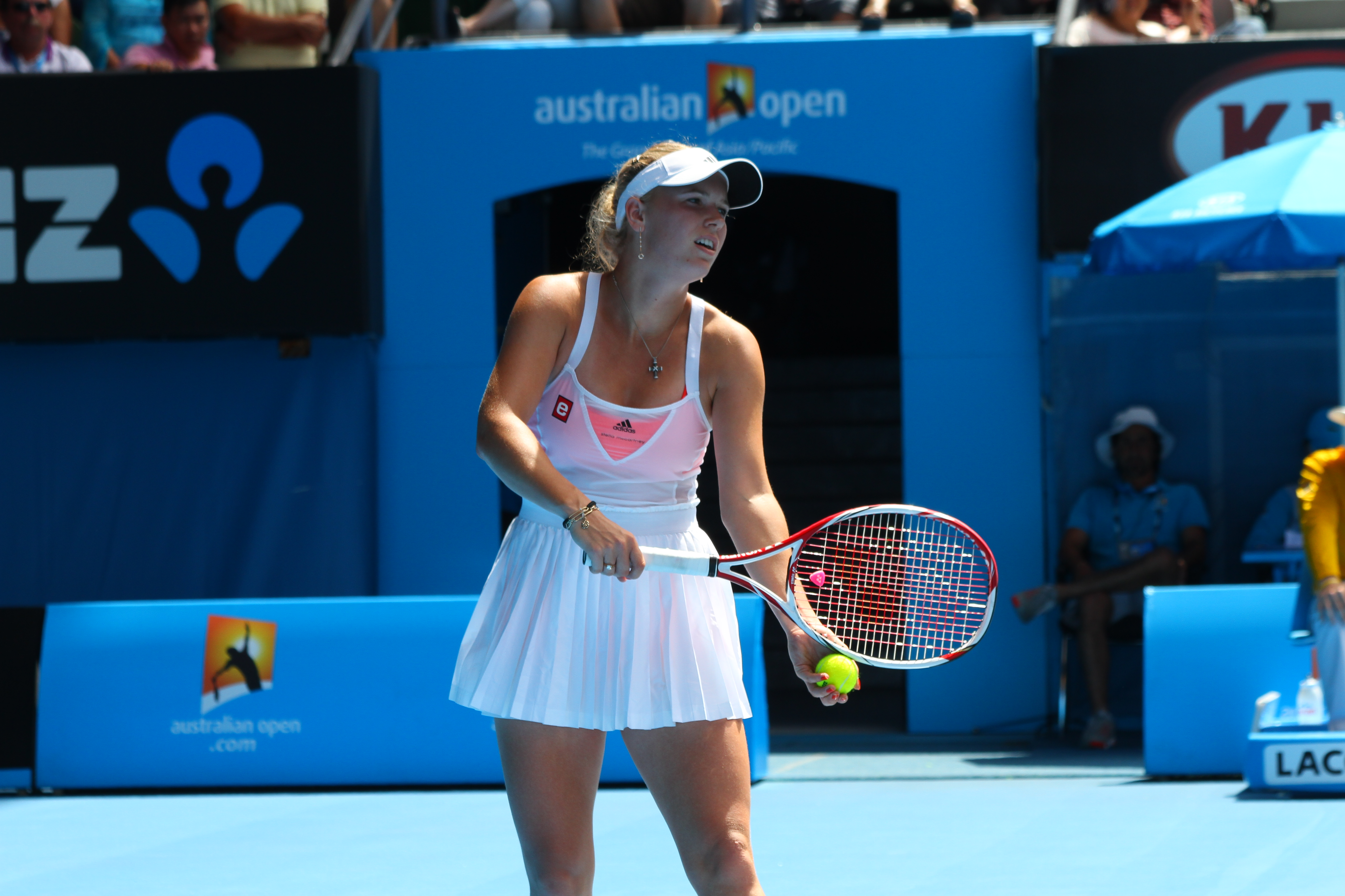 Caroline Wozniacki at the 2011 Australian Open